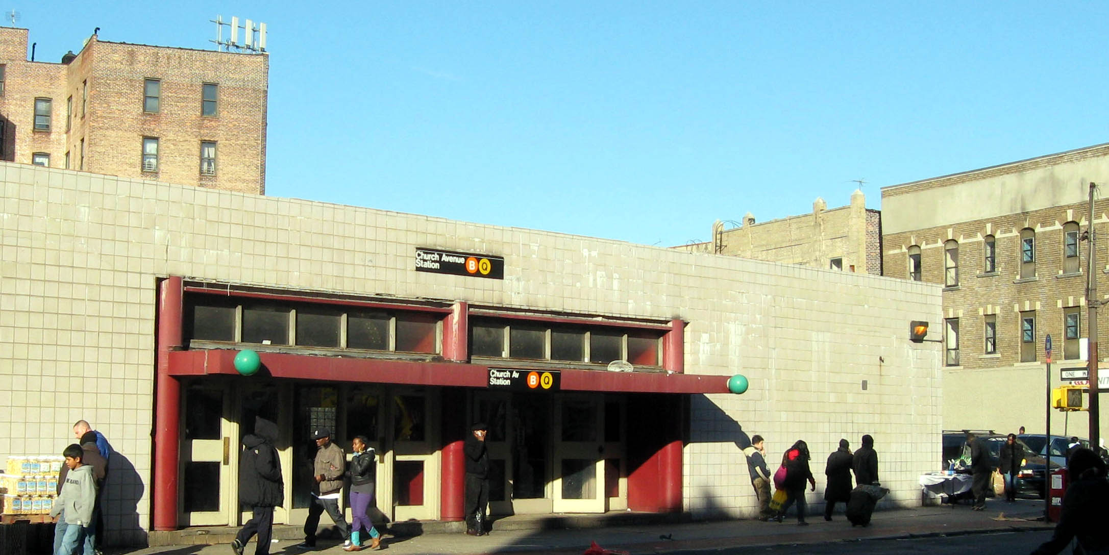 Looking northeast across Church Avenue at Church Avenue (BMT Brighton Line) station house on a sunny Christmas afternoon.